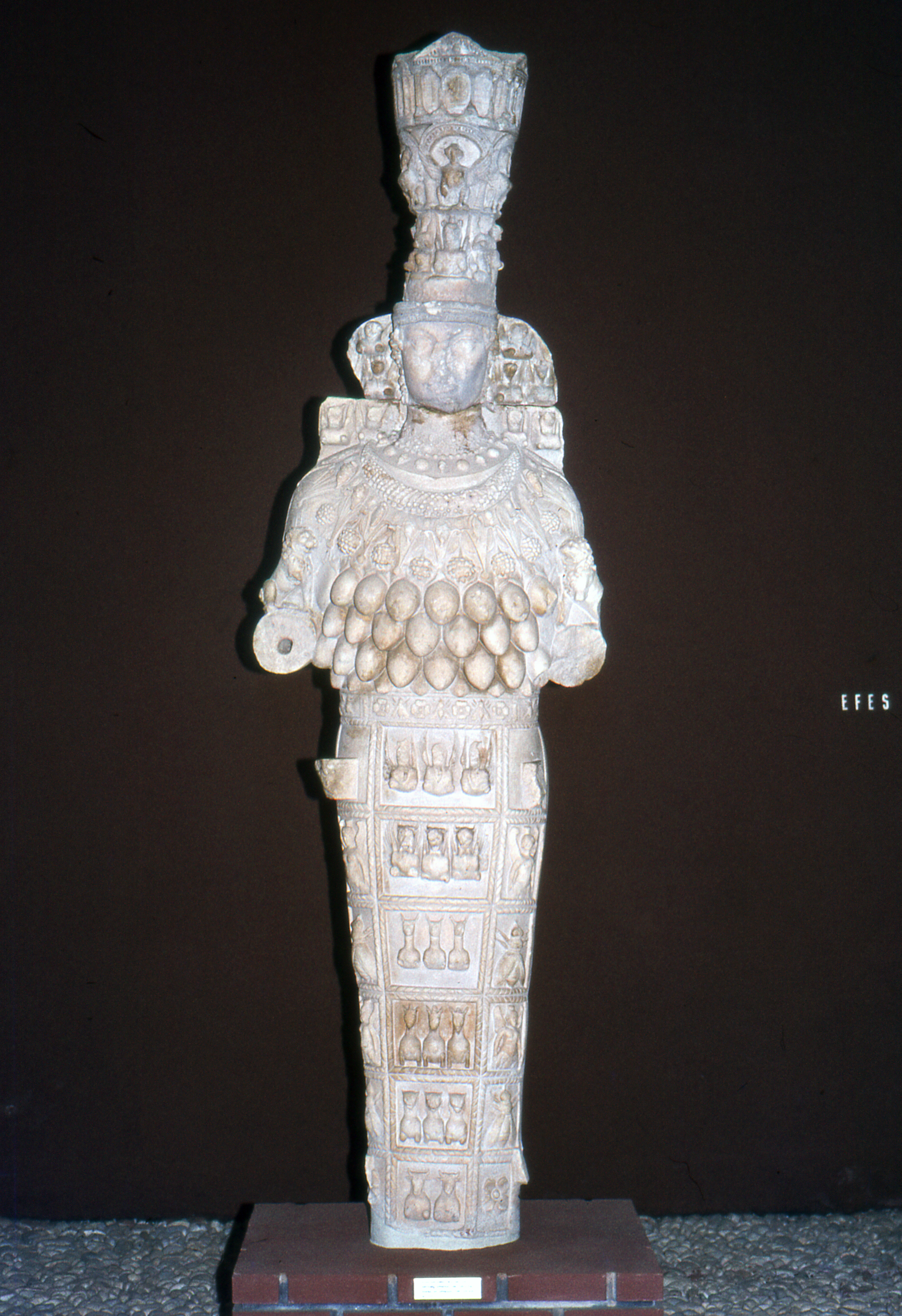 Statue of Artemis, Museum of Ephesus.